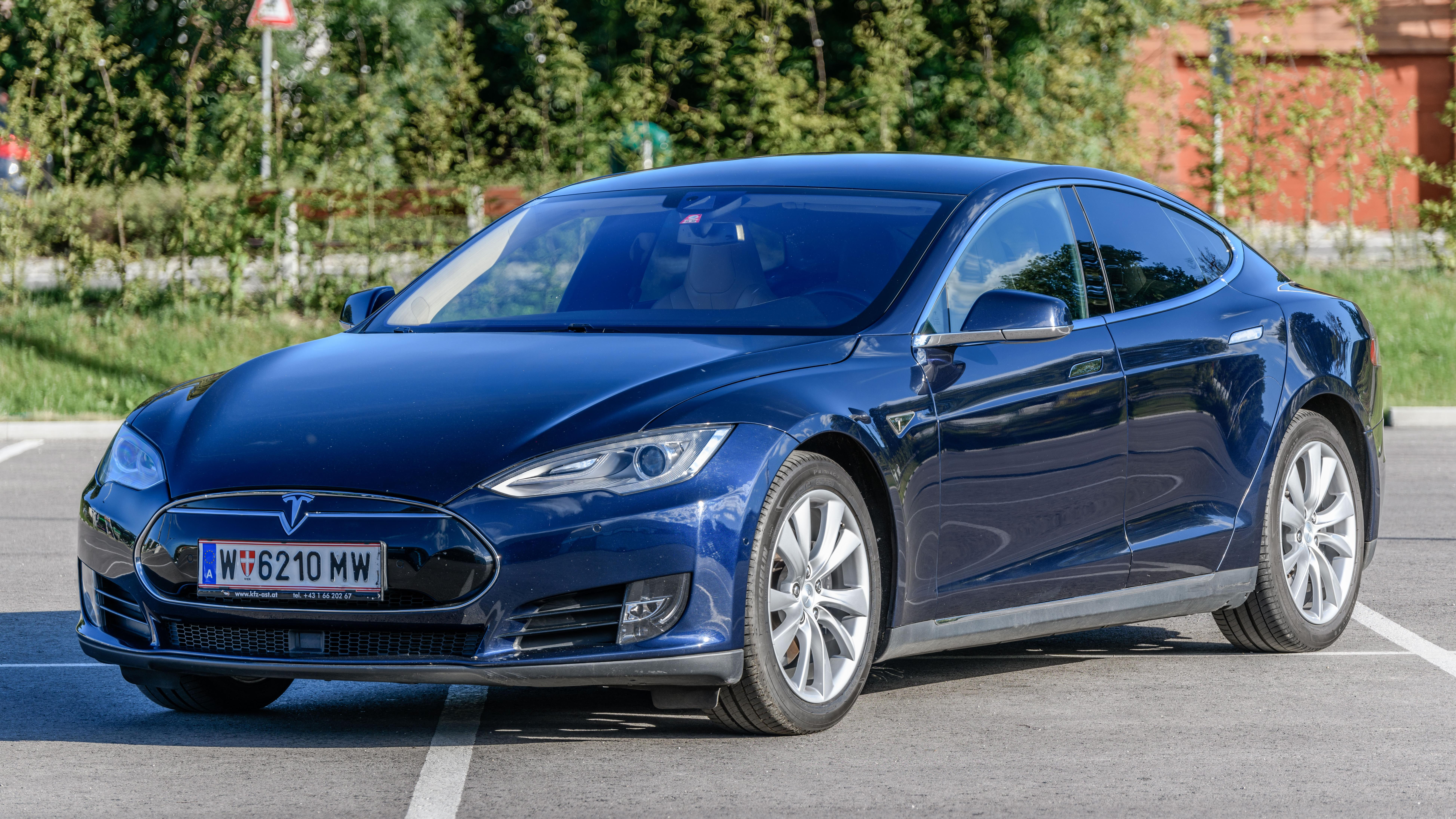 Tesla Model S 70D 2015, midnight blue. Picture shows: Front left